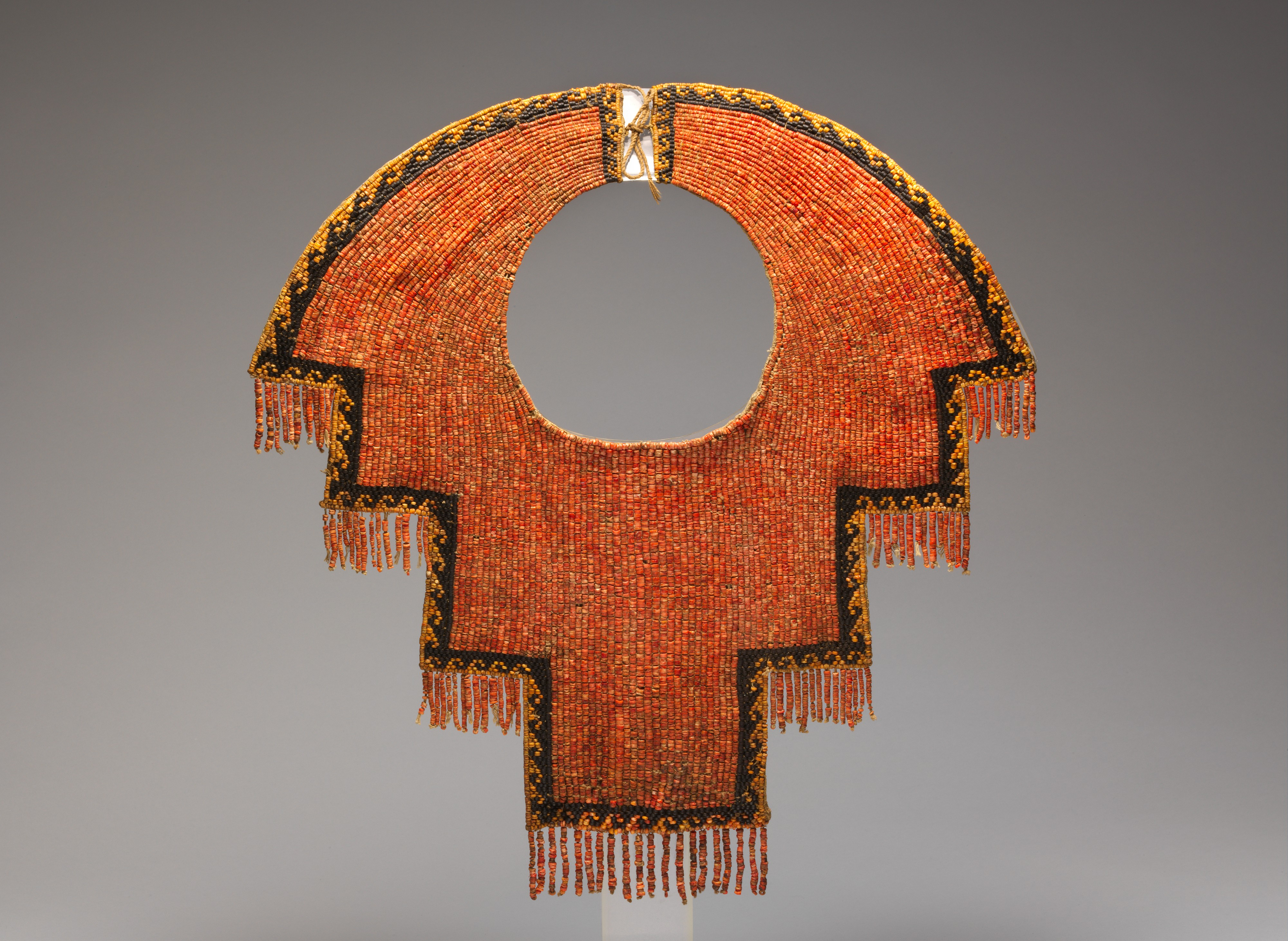 Chimú; Collar; Beads-Costumes